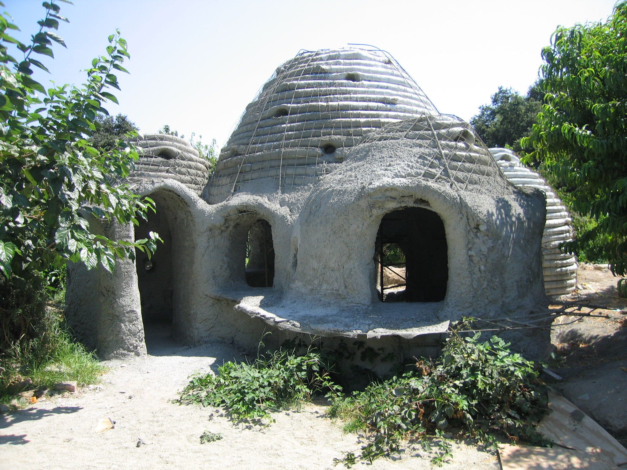 The front of the Earth Dome II at the Pomona College Organic Farm in April 2006.